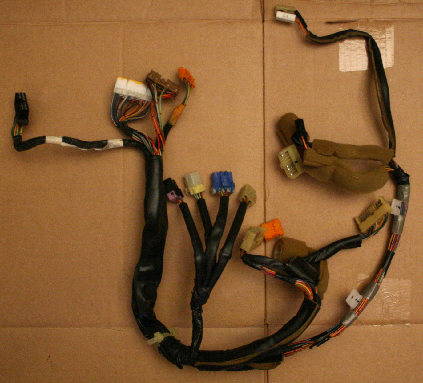 Instrument cluster wiring harness from a 1990 Geo Storm Gsi.